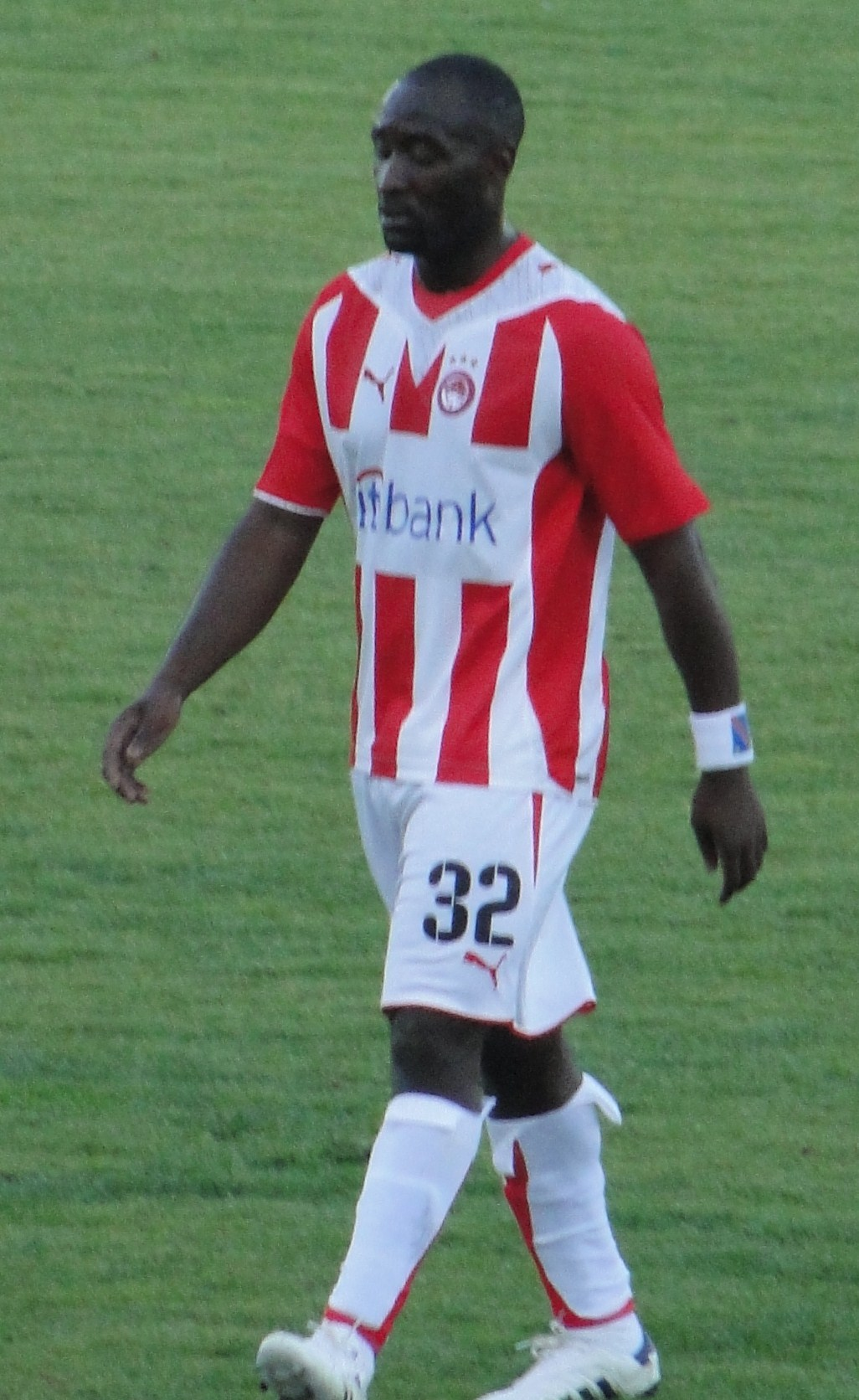 Lomana LuaLua playing for Olympiacos in 2010, Toumba Stadium.